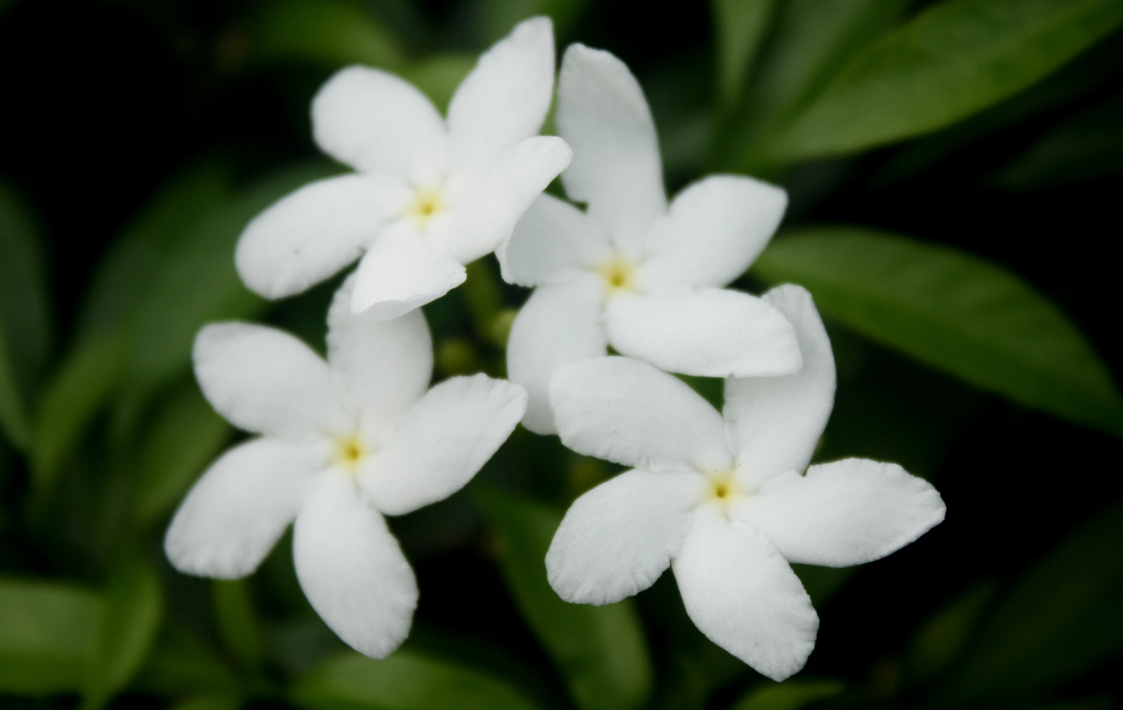 Tabernaemontana (টগর), Kolkata, West Bengal, India